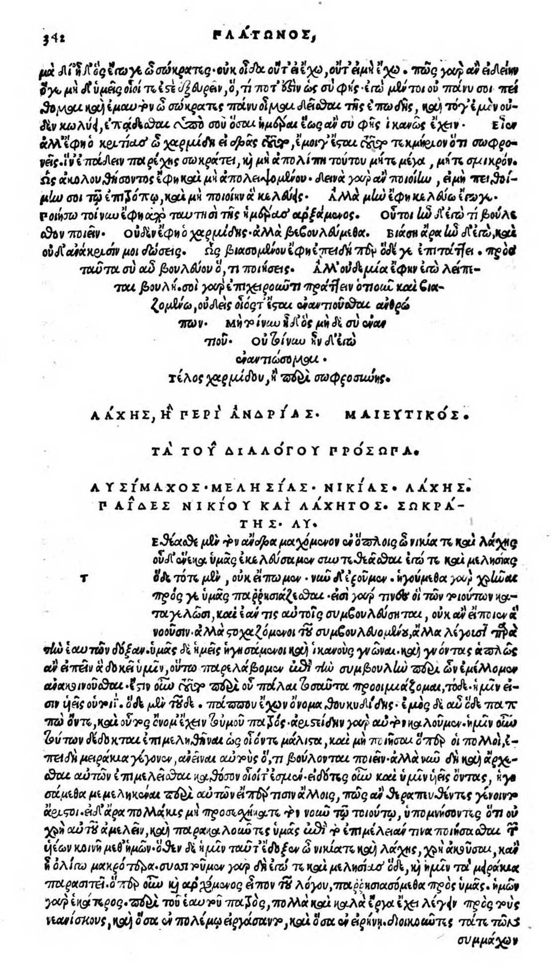 Laches beginning. Editio princeps, Venice 1513.